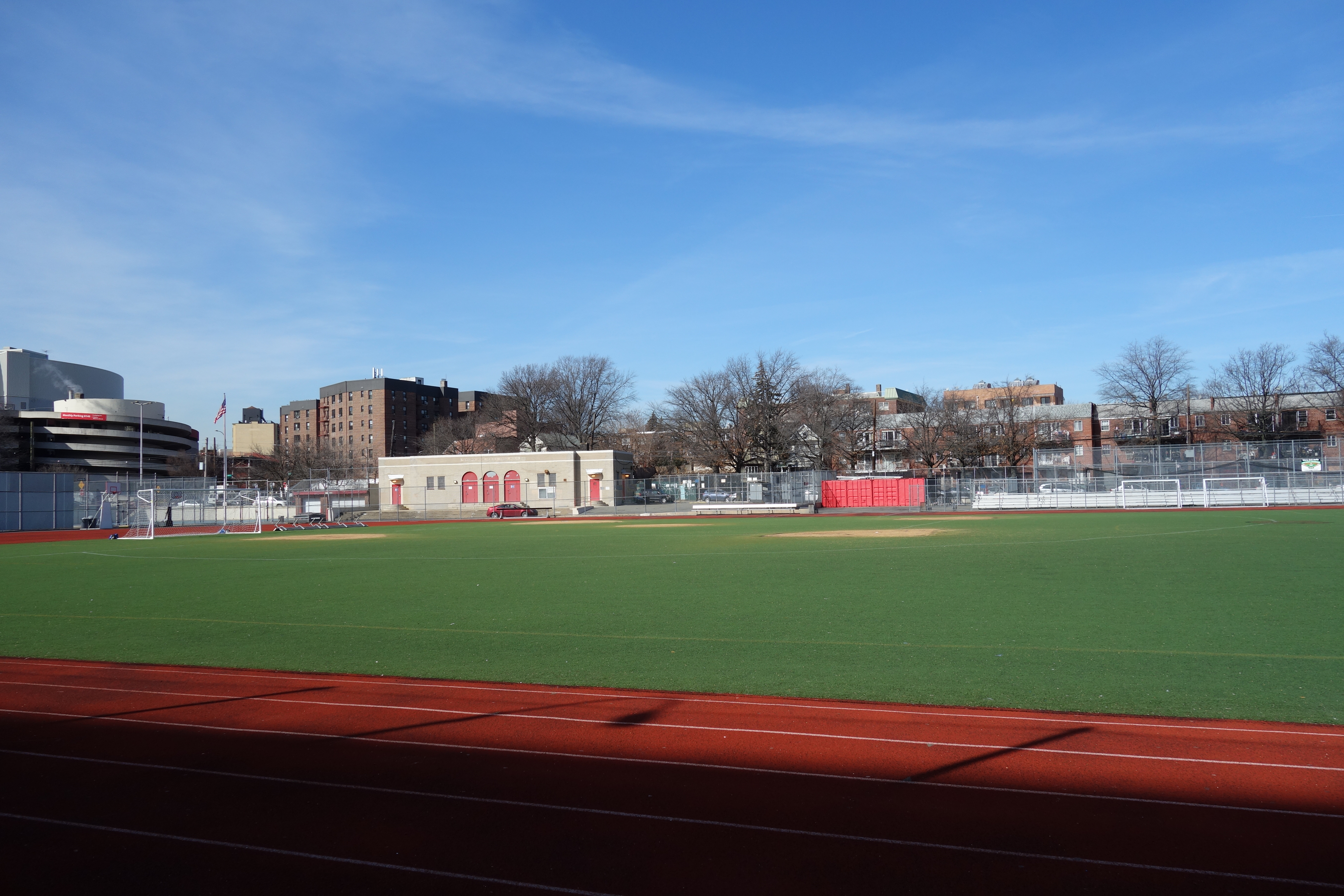 The athletic field for Newtown High School, on 57th Avenue near 92nd Street across from Queens Center Mall in Elmhurst, Queens.